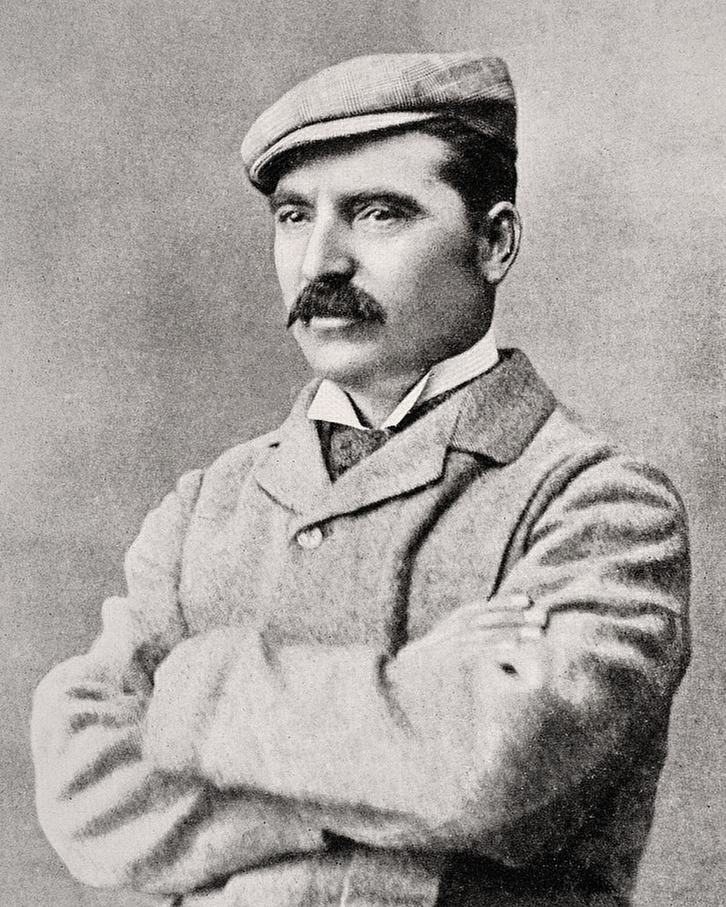 British Open Golf Champion and professional to the Troon Golf Club Willie Fernie, circa July 1900.